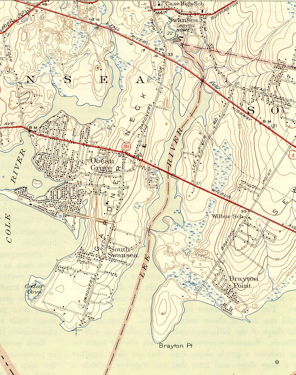 Map of Lees River, also known as Lee River (Massachusetts).